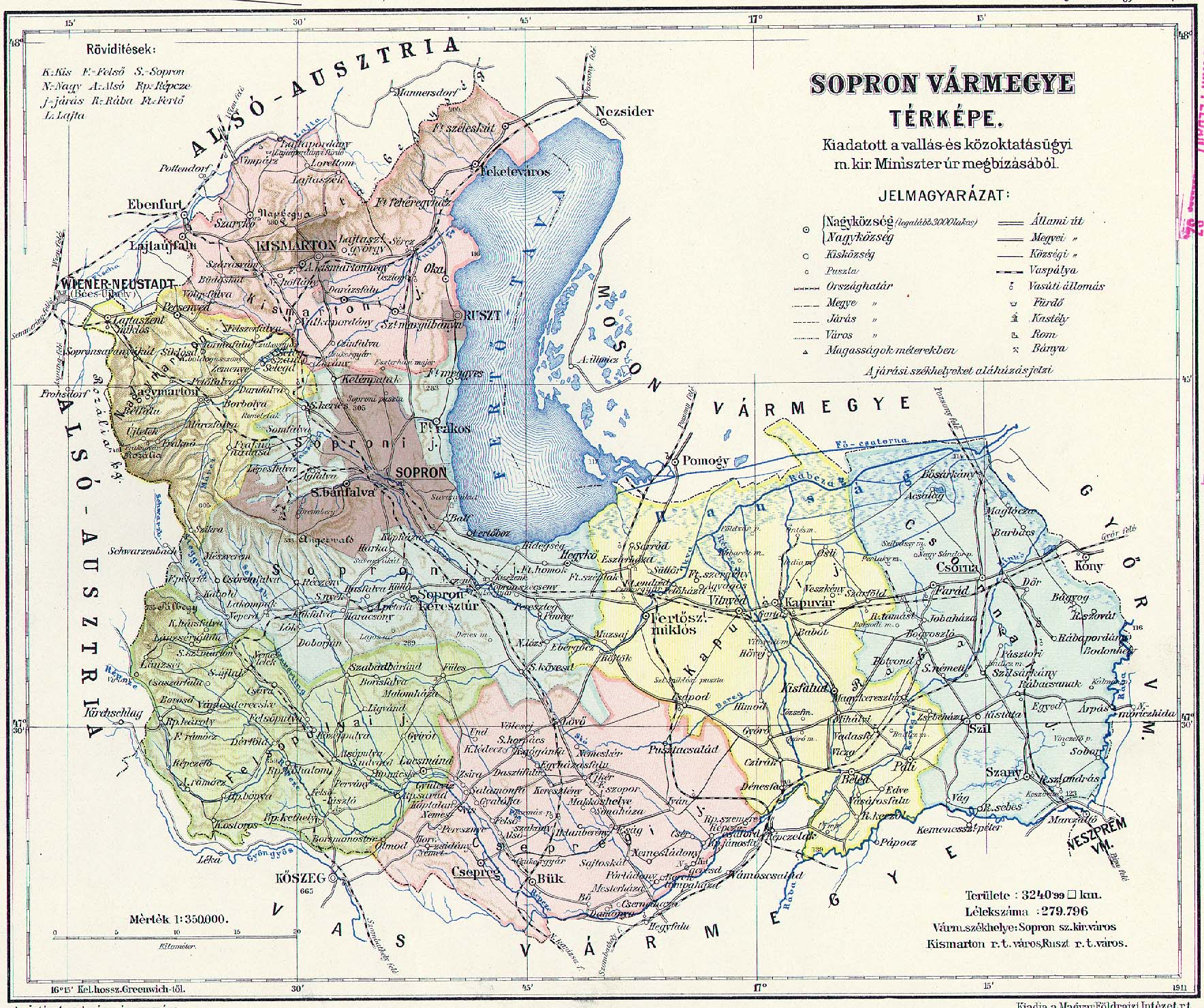 Administrative map of the county of Sopron in the Kingdom of Hungary